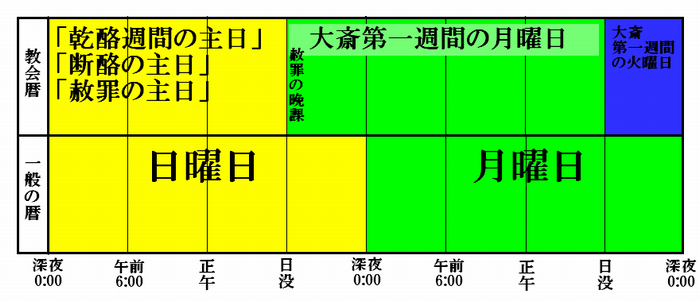 Explanation for Church calendar (Sunday of Forgiveness) in Japanese